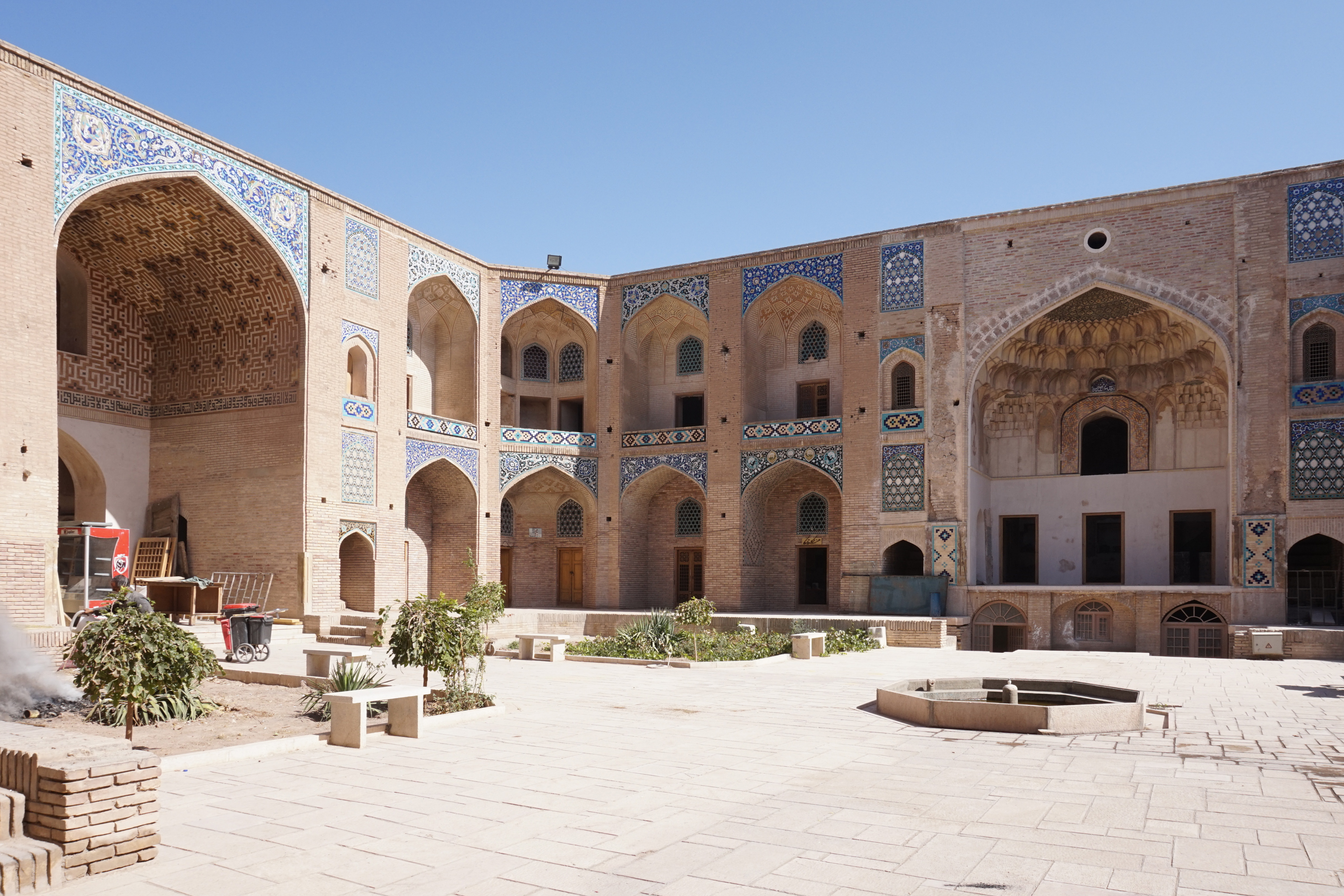 Ganjali Khan Caravanserai, Kerman, Iran